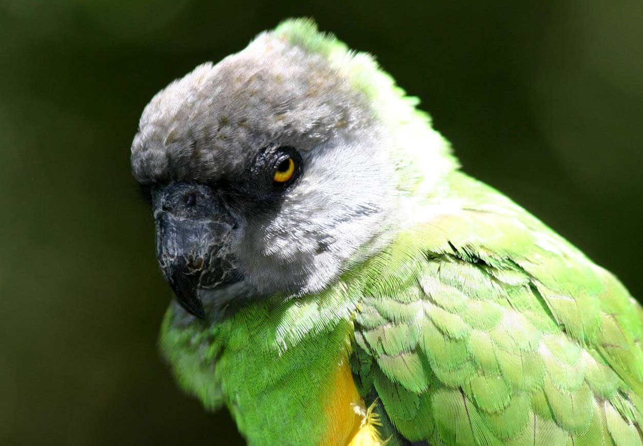 Poicephalus senegalus senegalus, the Senegal Parrot